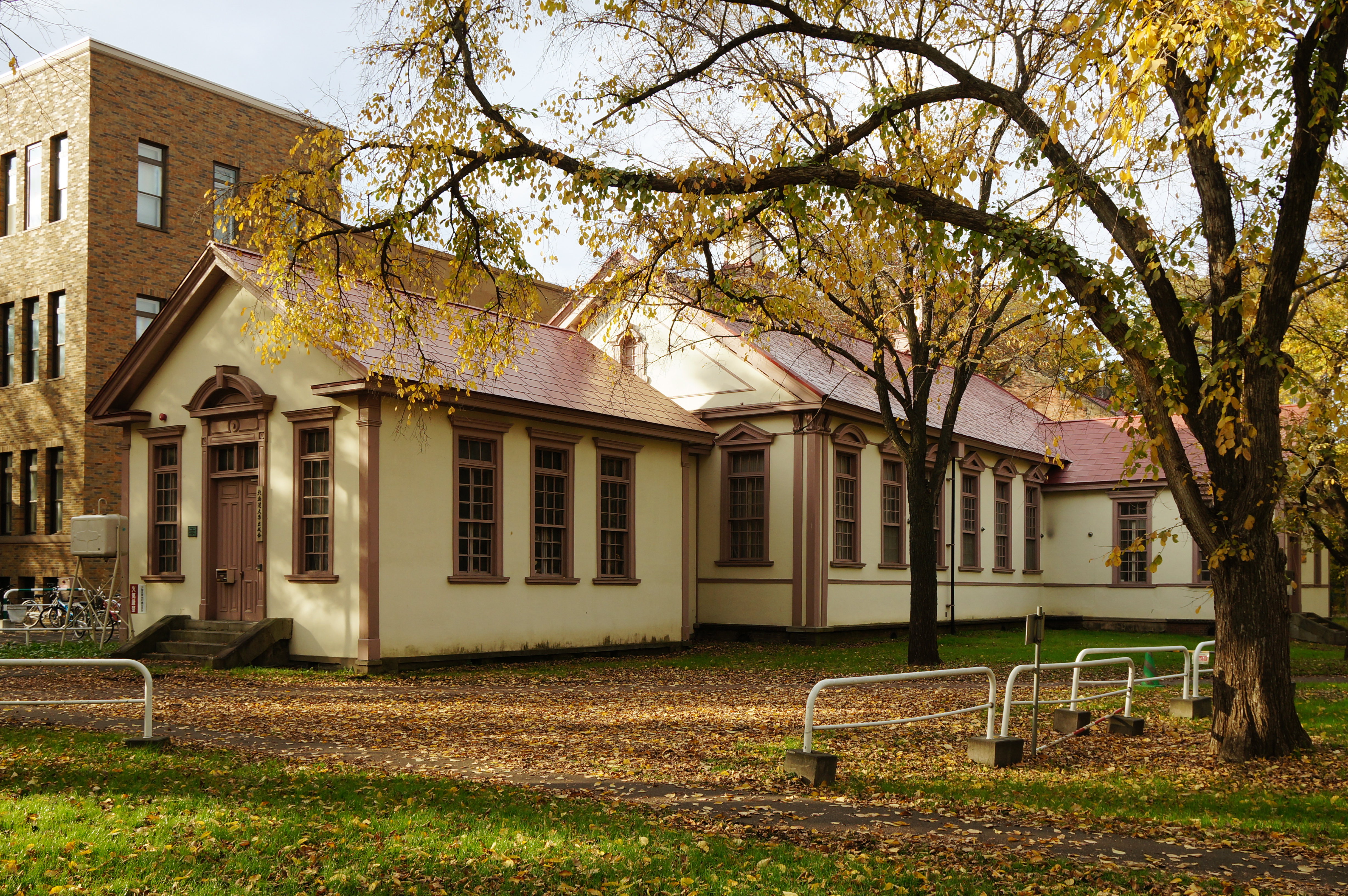 At Hokkaido University, former Sapporo Agricultural School, in Sapporo, Hokkaido prefecture, Japan.